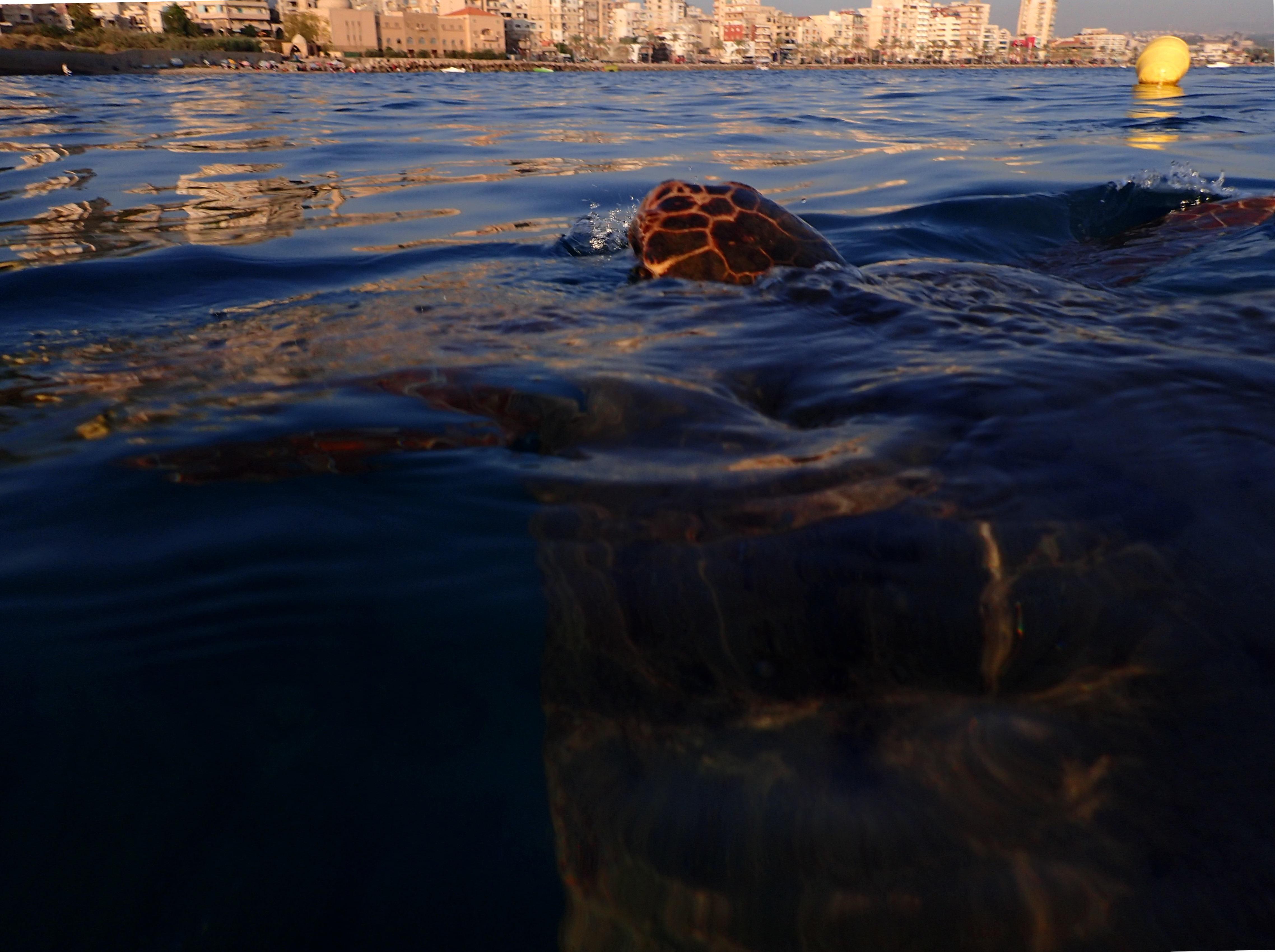 A sea turtle emerging from the water with the skyline of Tyre/Sour, South Lebanon, in the background